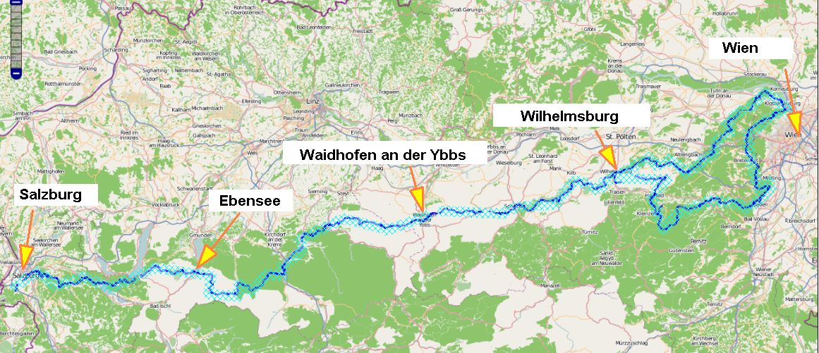 Map of the hiking trail Weitwanderweg 04 in Austria